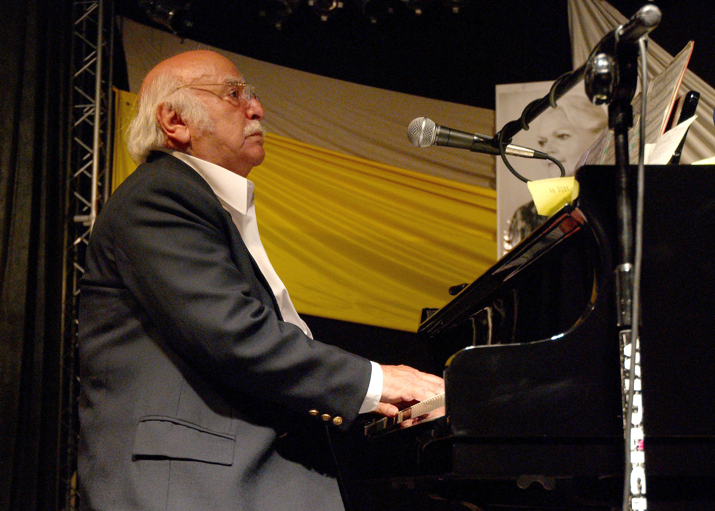 Leopold Kozłowski performing in Busko, during third day of XIII Krystyna Jamroz International Music Festival.